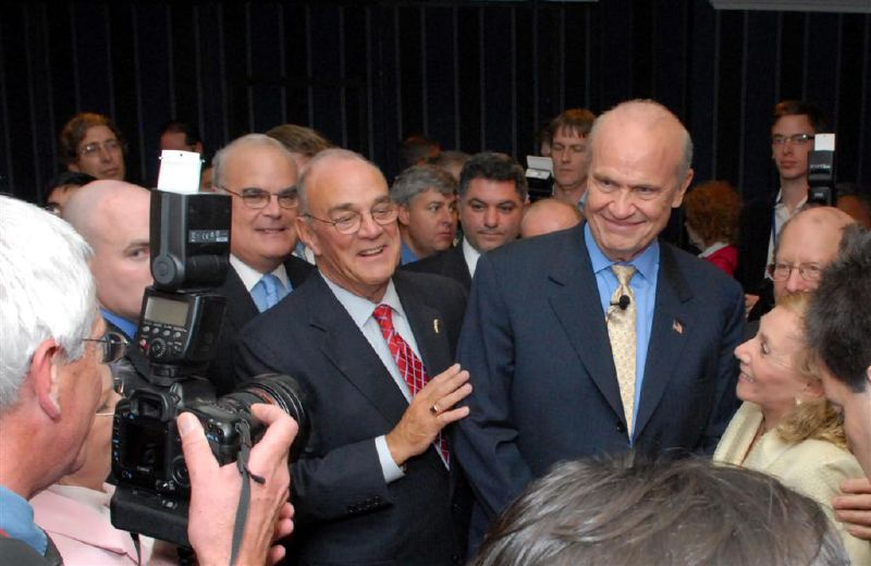 Fred with Chairman Mike Long